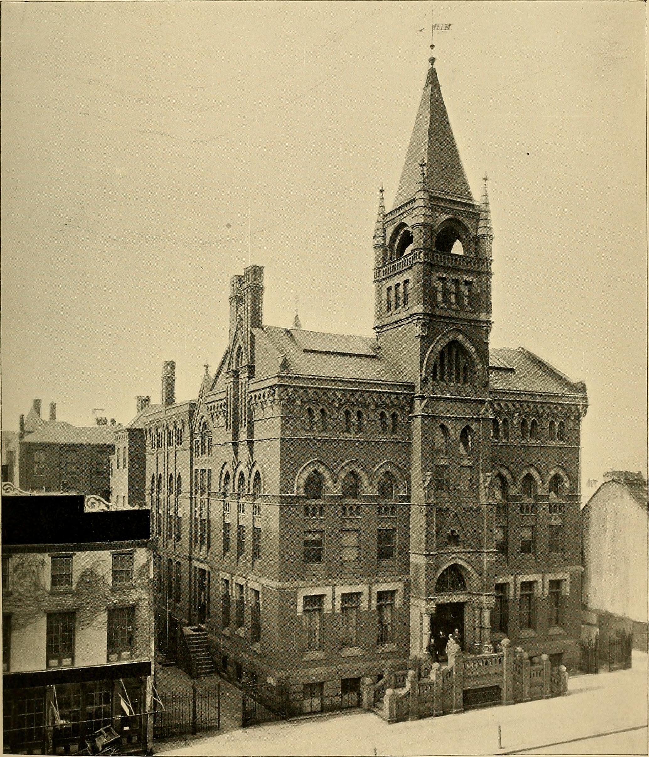 Title: History of the Homoeopathic Medical College of Pennsylvania : the Hahnemann Medical College and Hospital of Philadelphia Year: 1898 (1890s) Authors: Bradford, Thomas Lindsley, 1847-1918 Subjects: Hahnemann Medical College and Hospital of Philadelphia Medical education Education, Medical Homeopathy Hospitals Schools, Medical Publisher: Philadelphia : Boericke & Tafel Text Appearing Before Image: ^ and hospital buildings. The ground is situated two squares north of the new Public Buildings, near the business centre of the city. It extends from Text Appearing After Image: HAHNEMANN MEDICAL COLLEGE. MEDICAL COLLEGE OF PHILADELPHIA. 225 Broad street (north of Race street) westward to Fifteenth street, having a frontage of one hundred and six feet on Broad street and one hundred forty-two feet six inches on Fifteenth street. The entire length of the lot is three hundred and ninety-six feet. The cost of this magnificent site is$104,500. It is the intention of the trustees, as soon as actual possession of the property is obtained, to commence the erection of buildings thoroughly adapted in all respects to the needs of a first-class medical college. It is proposed to erect the main college building on the Broad street front of the college grounds. This building will contain the lecture-rooms for didactic instruction, the museum, practical anatomy rooms,and the various laboratories for the professors and for practical work by the students in the departments of General and Medical Chemistry, Physiology, Microscopy, Normal and Pathological Histology, etc., together wi